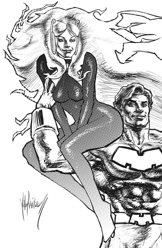 A sketch of comic book character Ms. Mystic by Michael Netzer, co-artist on the first issue of the series. Appearing with Ms. Mystic in the sketch is another Continuity Comics character, Megalith.